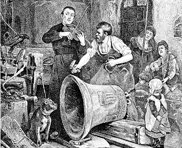 Walter Shirlaw, The Toning of the Bell.